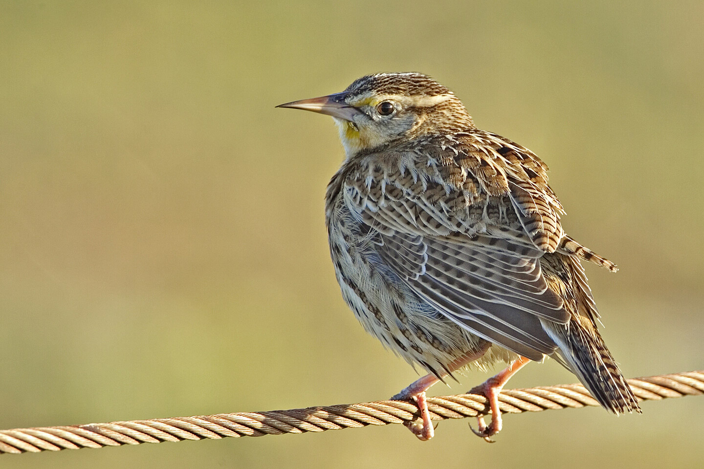 Eastern Meadowlark (Juvenile)(Sturnella magna), Rockport Beach Park, Rockport, Texas